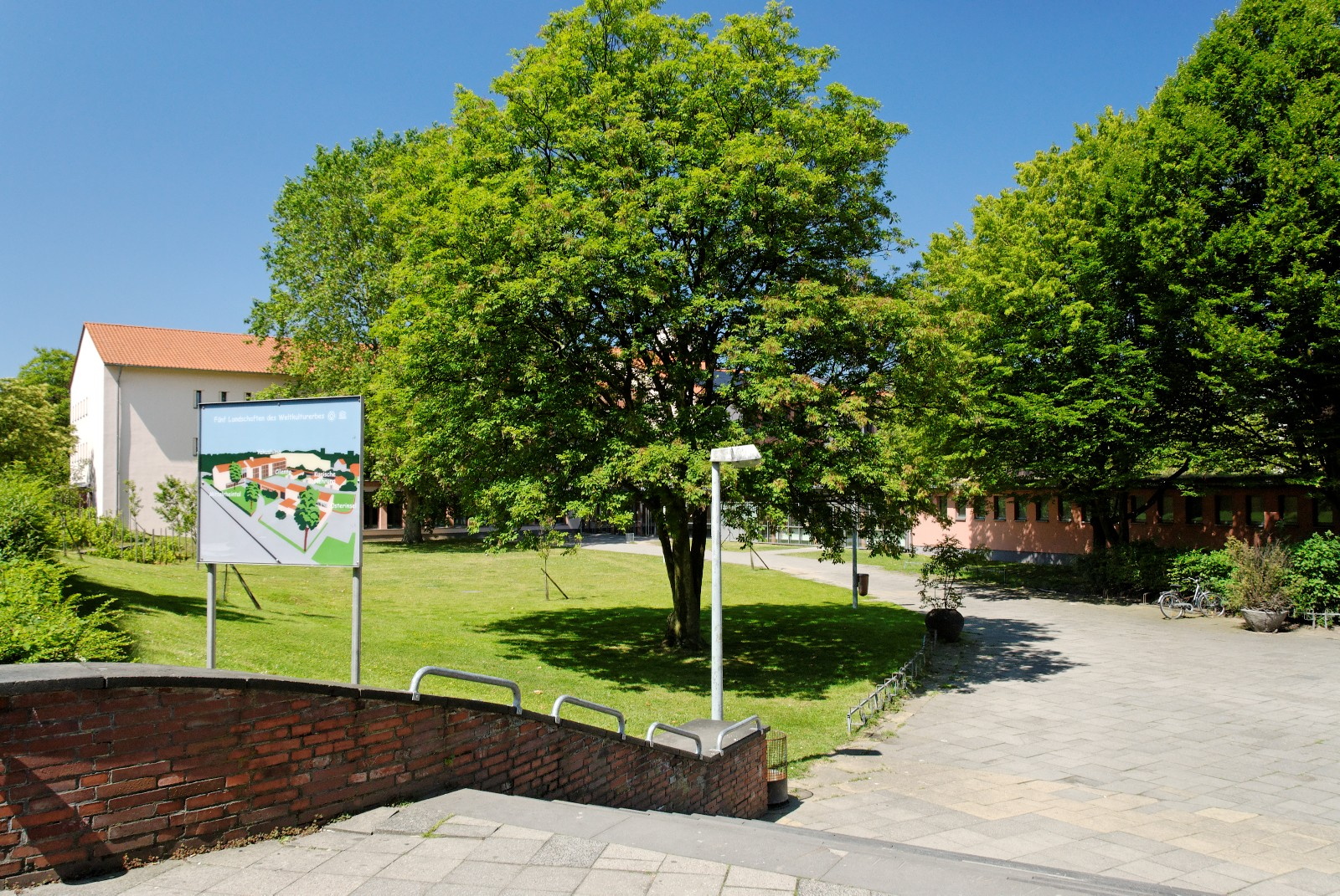 Cecilia Gymnasium in Düsseldorf-Niederkassel, Germany